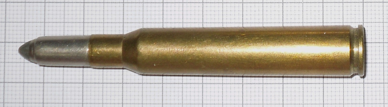 7×64mm rife cartridge